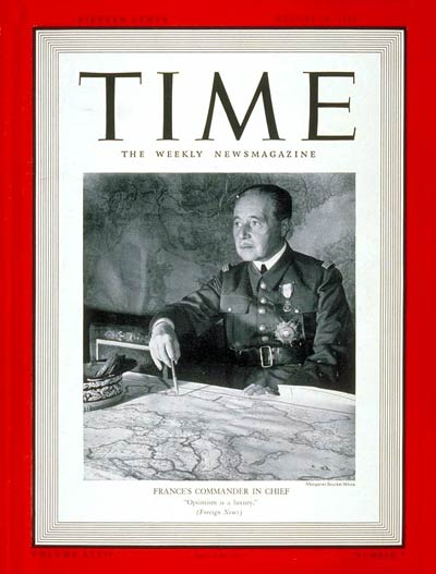 French general Maurice Gamelin.